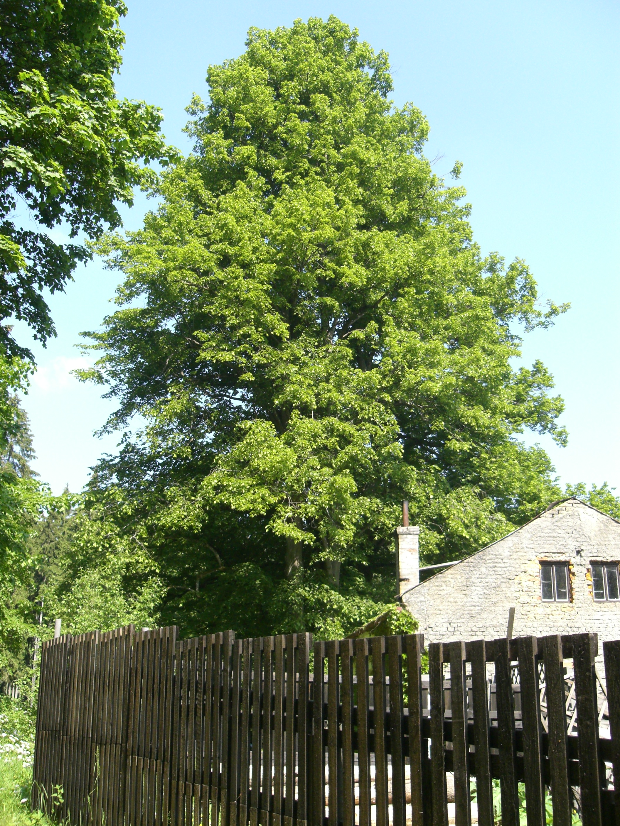 Protected trees called Lípy u Tabákového mlýna in Slavkovský les, Czech Republic.